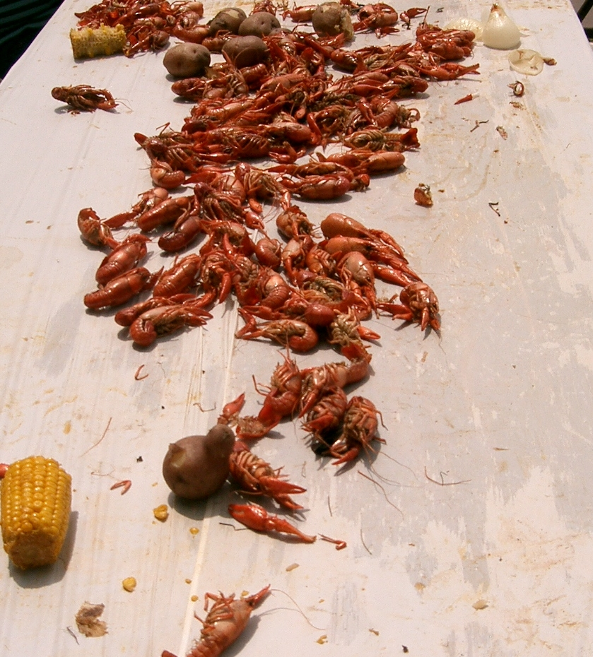 Picnic with crayfish - Louisiana self made PRA